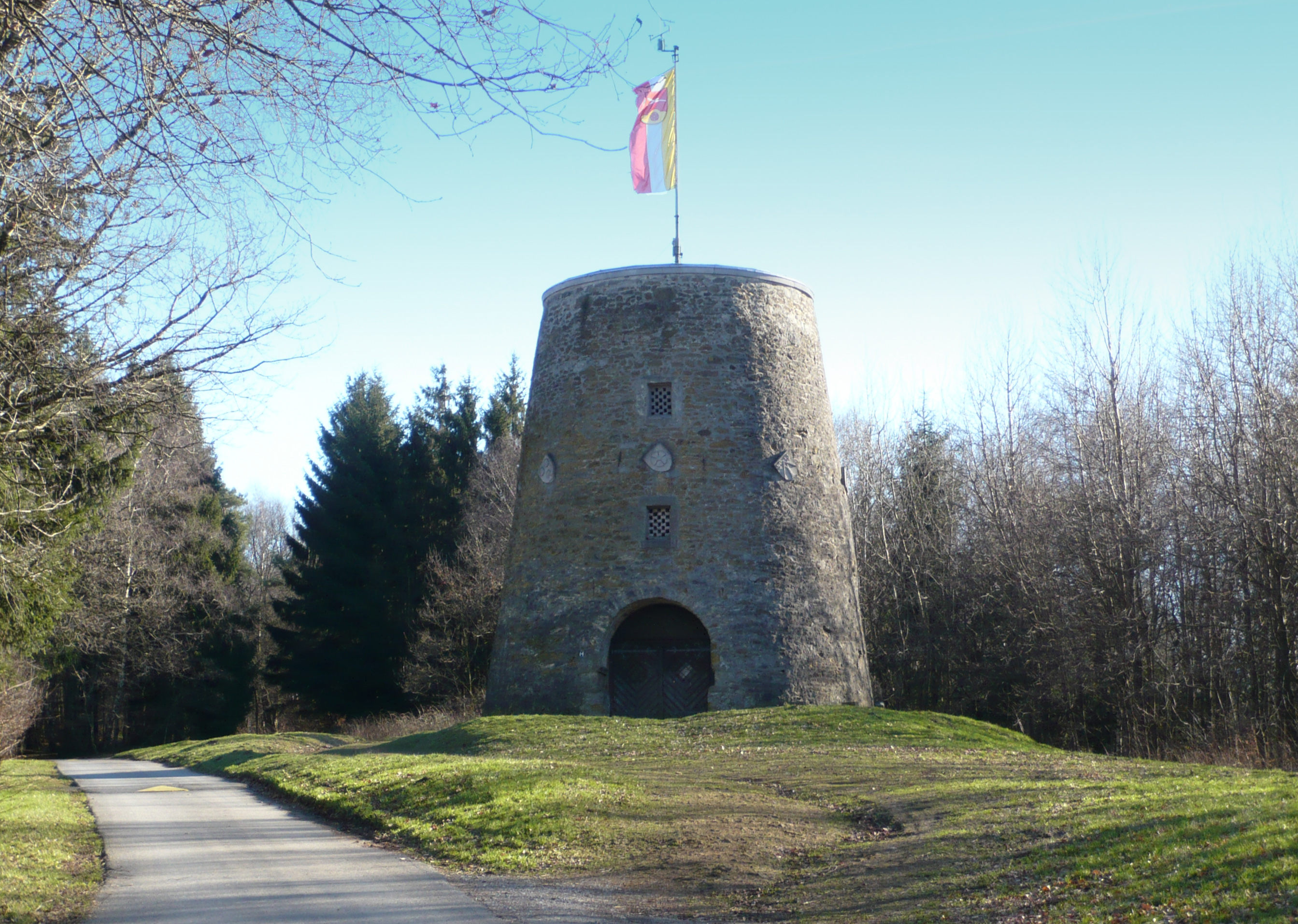 Kumsttonne in Oerlinghausen, Germany This is a photograph of an architectural monument.